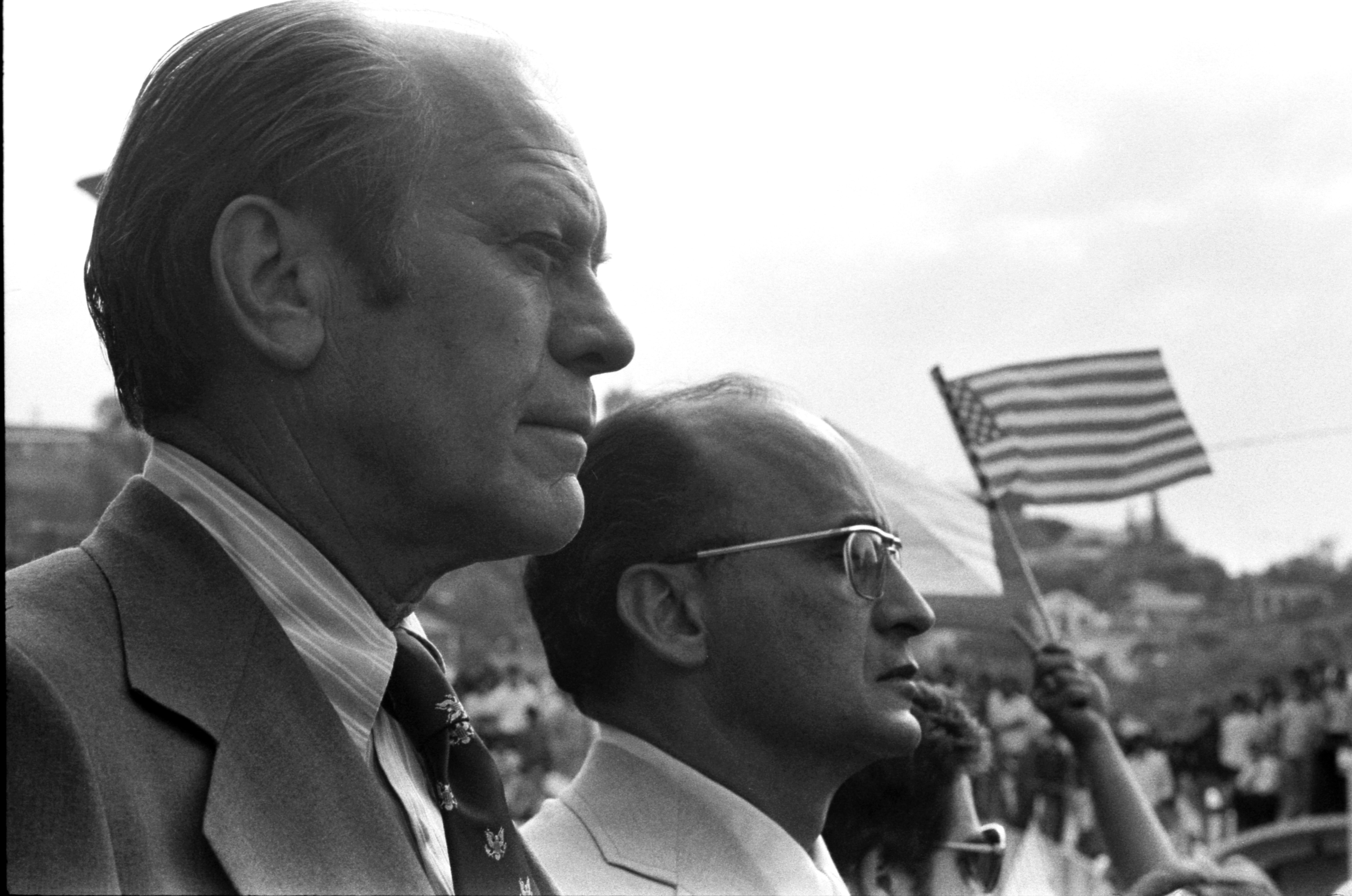 In his first foreign trip President Gerald Ford meets with Mexican President Luis Echeverria in a stopover visit at the Nogales, AZ/Nogales, Mexico boarder.